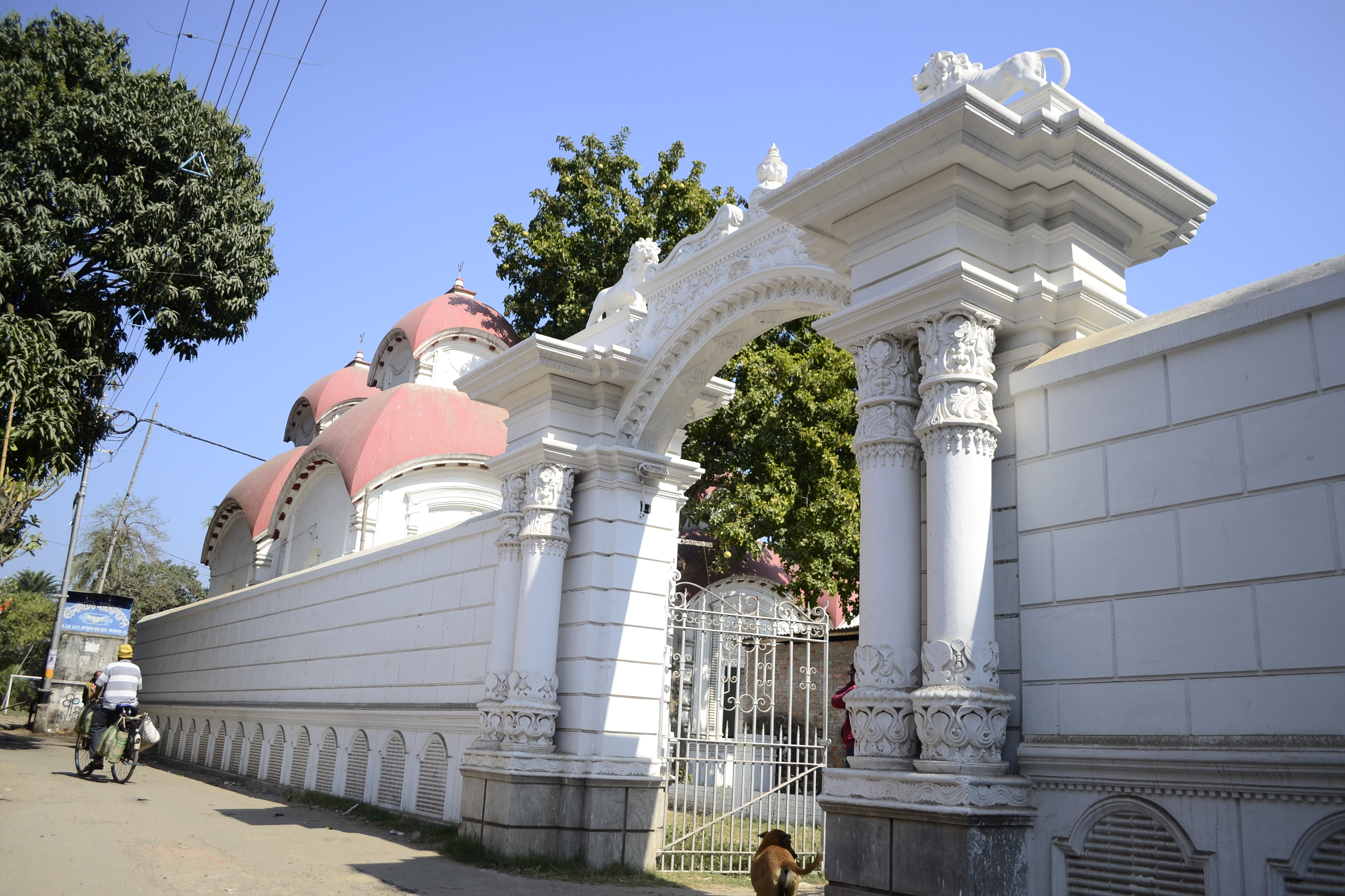 The Kripamoyee Kalibari, popularly known as Joy Mitra kalibari, situated at the banks of river ganges at Baranagar area and it was founded by famous Jamindar of his time Joyram Mitra in the year 1848. Goddess Dakshina Kali is installed in the main temple and along with this main temple, there are 12 Shiva temple in the compound with clusters of six each on both sides-known as dwadasha Shiva Temple. Shri Ramkrishna Paramahansa used to visit this temple many times .